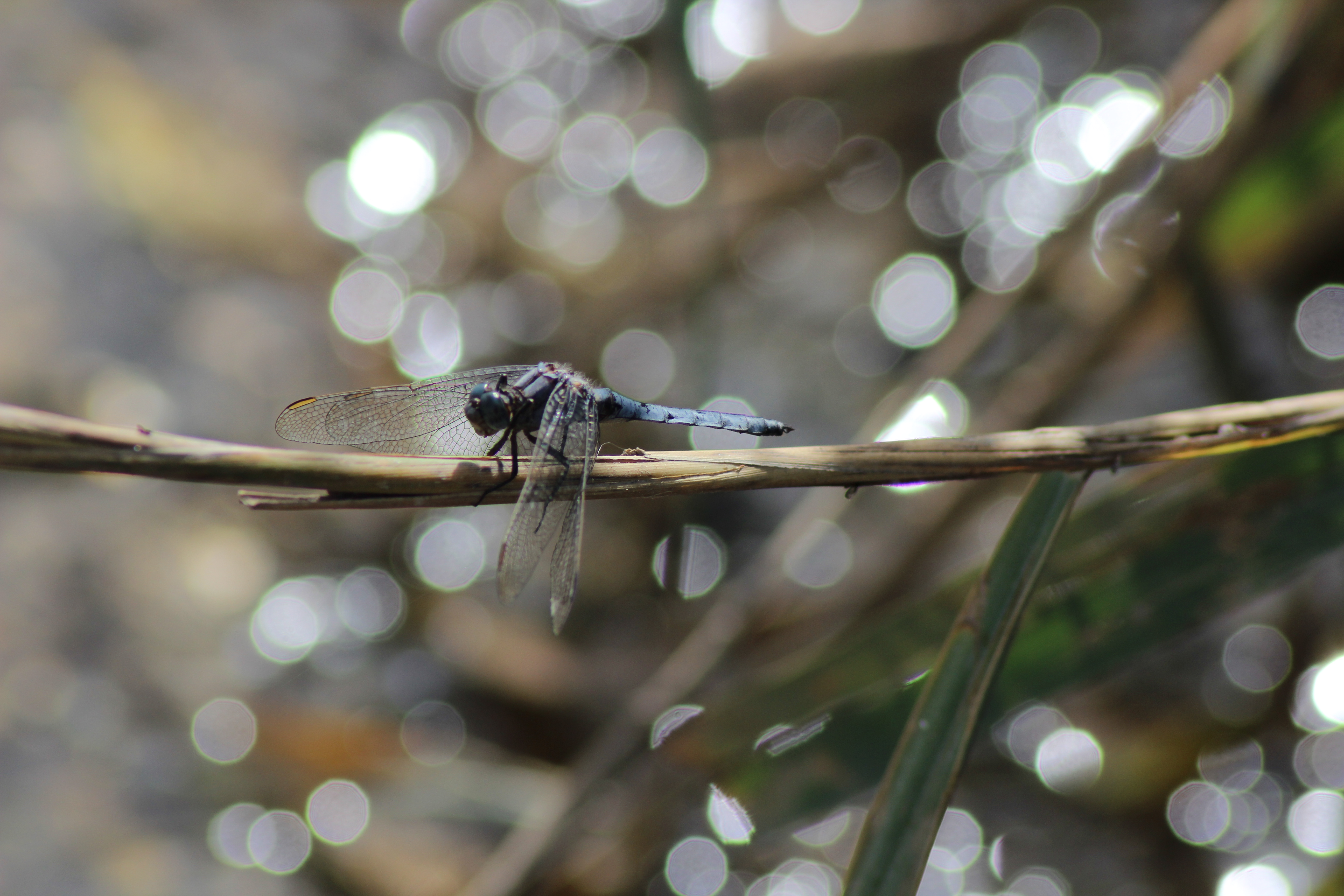 Dragonfly and bokeh. Light caught in water drops in the back is out-of-focus and rendered as clear-cut octogons (the shape of the diaphragm).